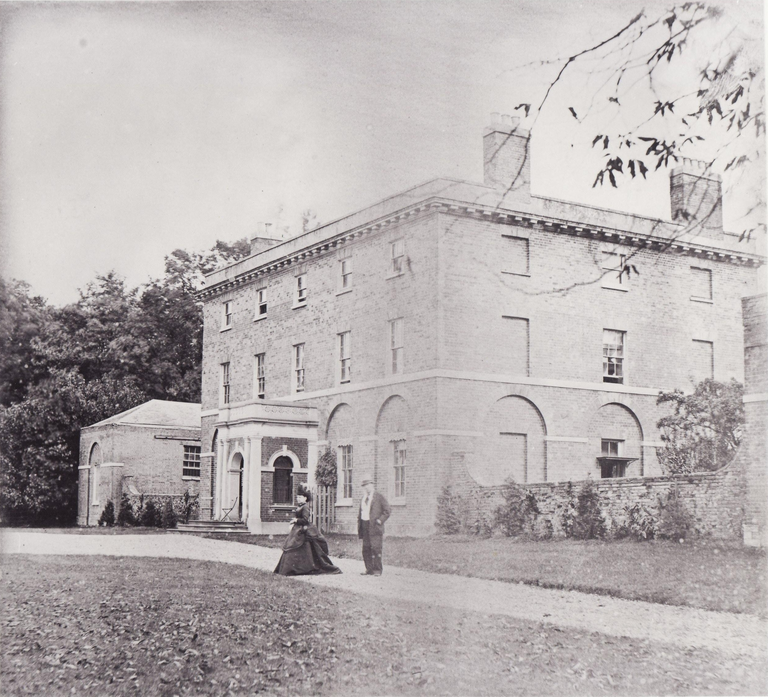 Whitson Court, Whitson, Newport, Monmouthshire c.1890 following the addition of the front porch.